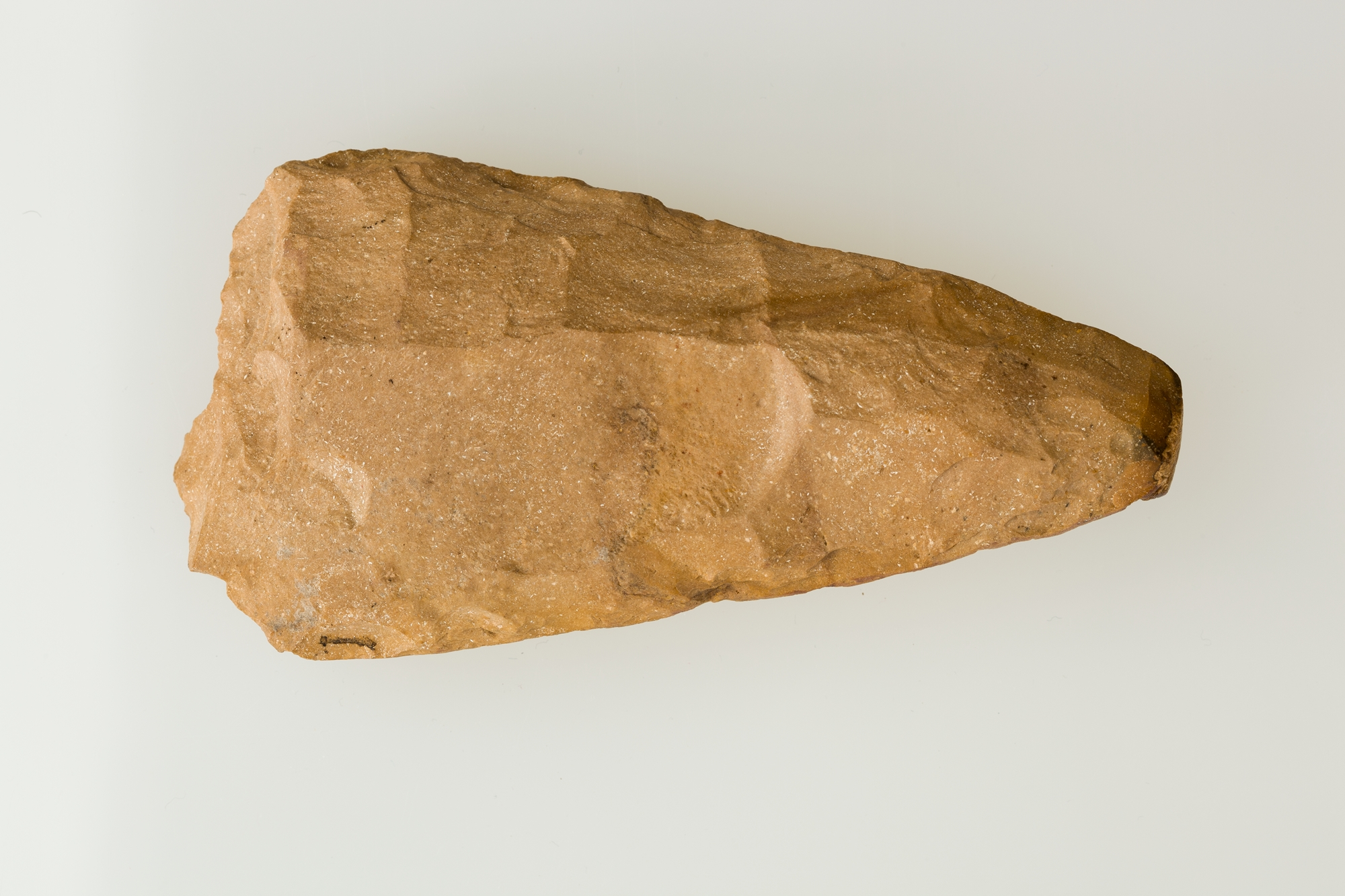 Hand ax